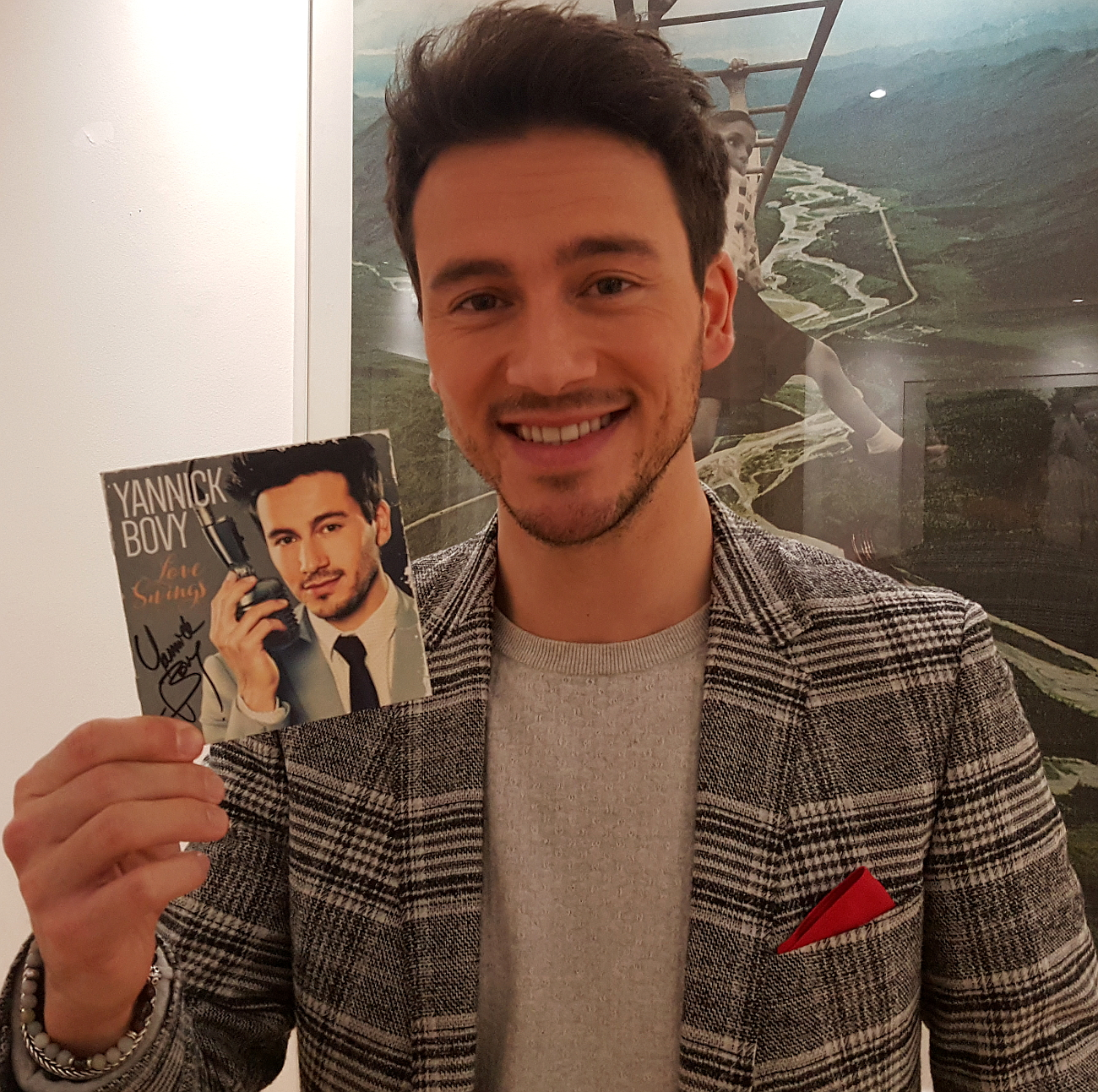 Belgian singer Yannick Bovy with a booklet of his third studio album "Love Swings", Warsaw 2018.